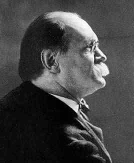 Samuel Loyd (January 31, 1841 - April 10, 1911) was an American puzzle author and recreational mathematician.